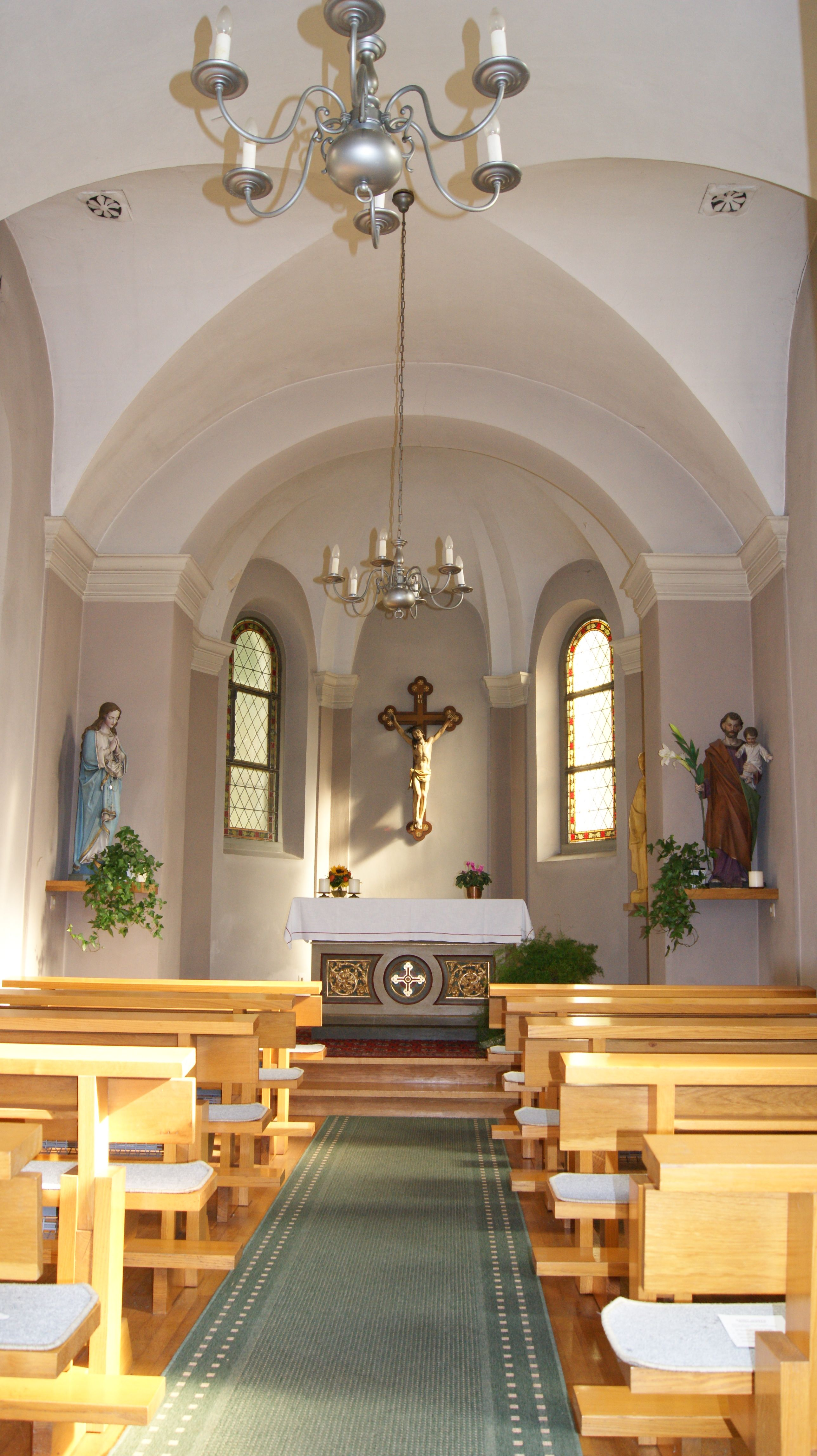 Chapel of St. Joseph in the local district of "Unterklien", Hohenems, Vorarlberg, Austria. Prayer room and the chancel.